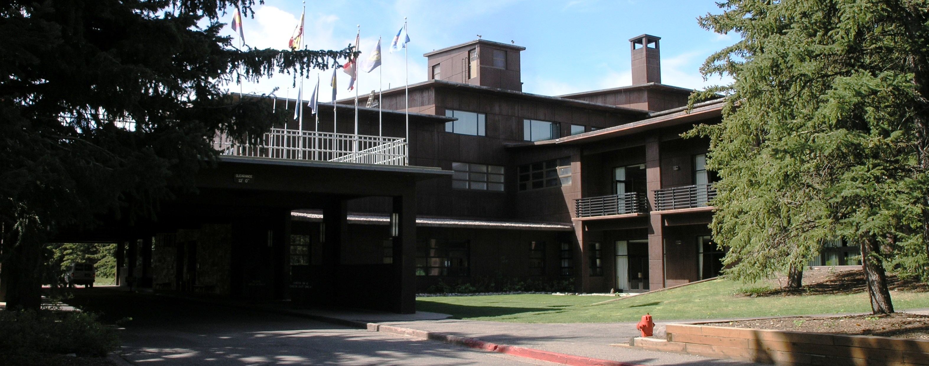 Photo in Grand Teton National Park